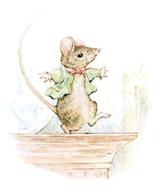 Illustration of the escaped mouse dancing a jig from The Story of Miss Moppet